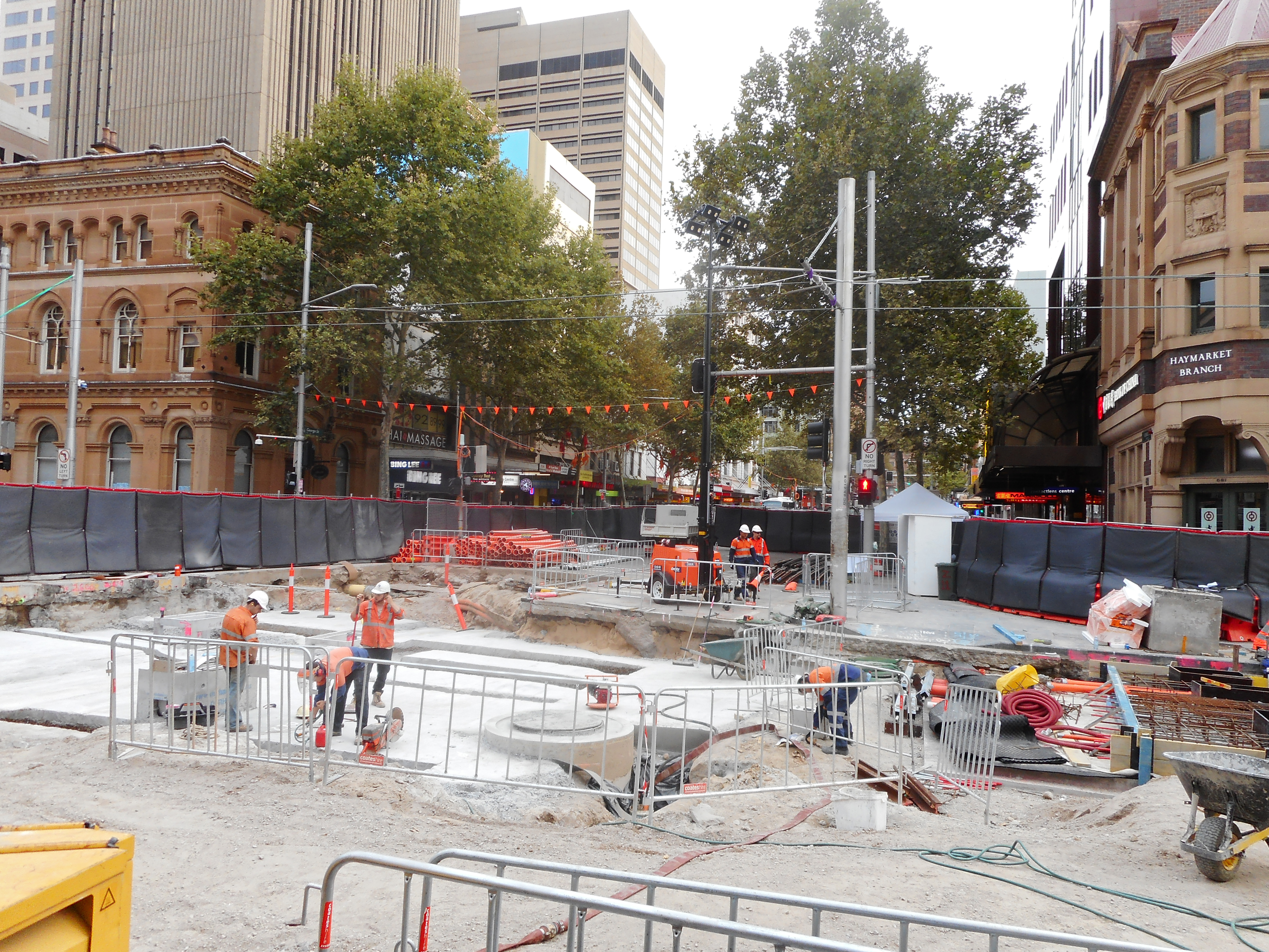 The Inner West Light Rail was closed between Central and Convention between 25 December 2016 and 23 January 2017 to prepare for construction of a connection between the Inner West Light Rail and the CBD and South East Light Rail.